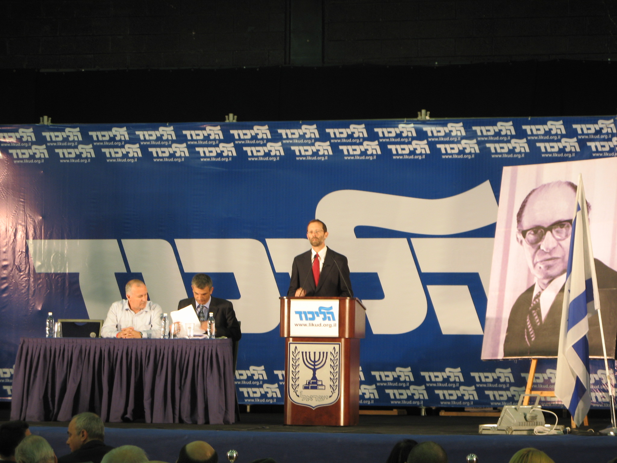 Moshe Feiglin speaking before Merkaz Likud